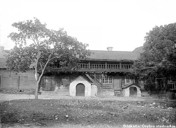 The old house "Kungsstugan", Örebro, Sweden